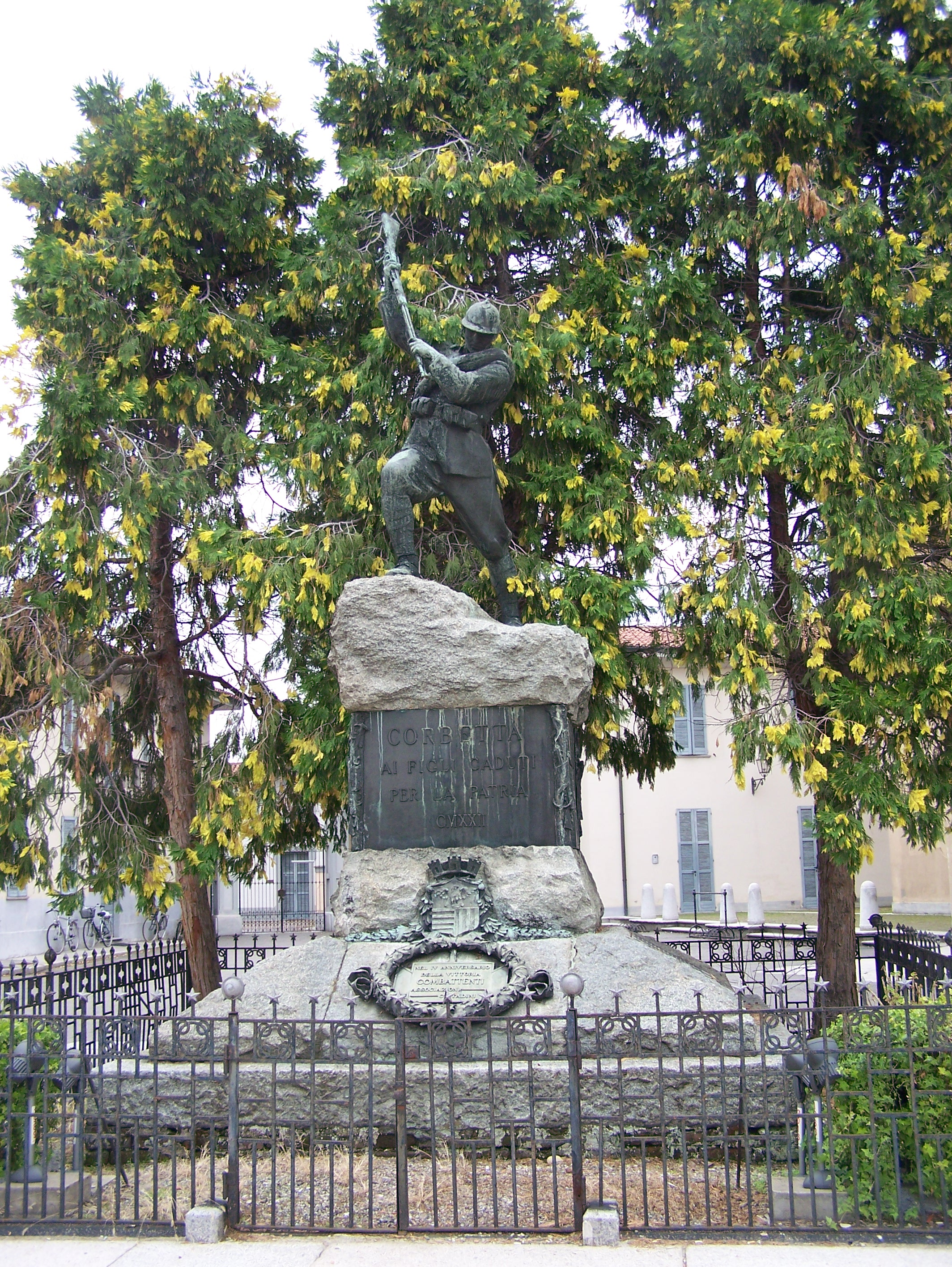 Monumento ai caduti in Corbetta (MI) - Italy